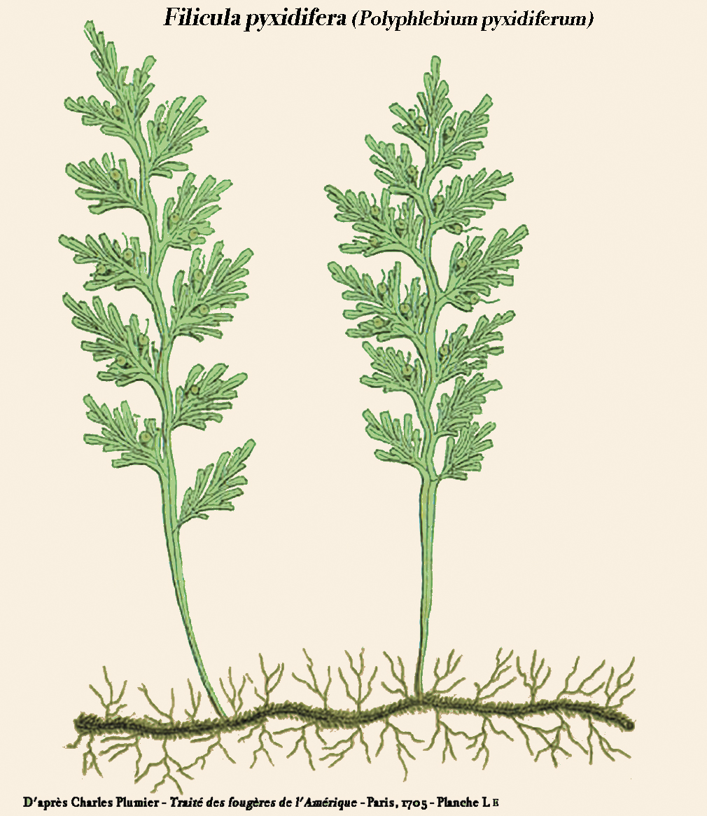 The currently accepted name is Trichomanes pyxidiferum L.